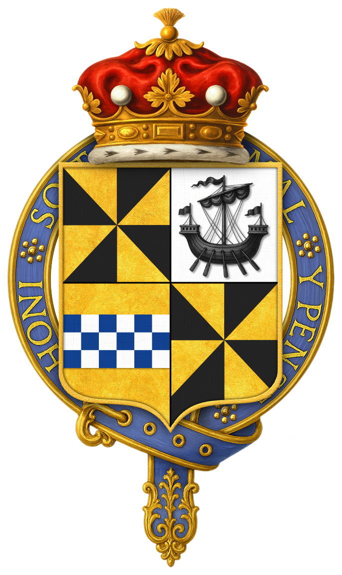 Garter encircled shield of arms of Gavin Campbell, 1st Marquess of Breadalbane, KG, as displayed on his Order of the Garter stall plate in St. George's chapel.